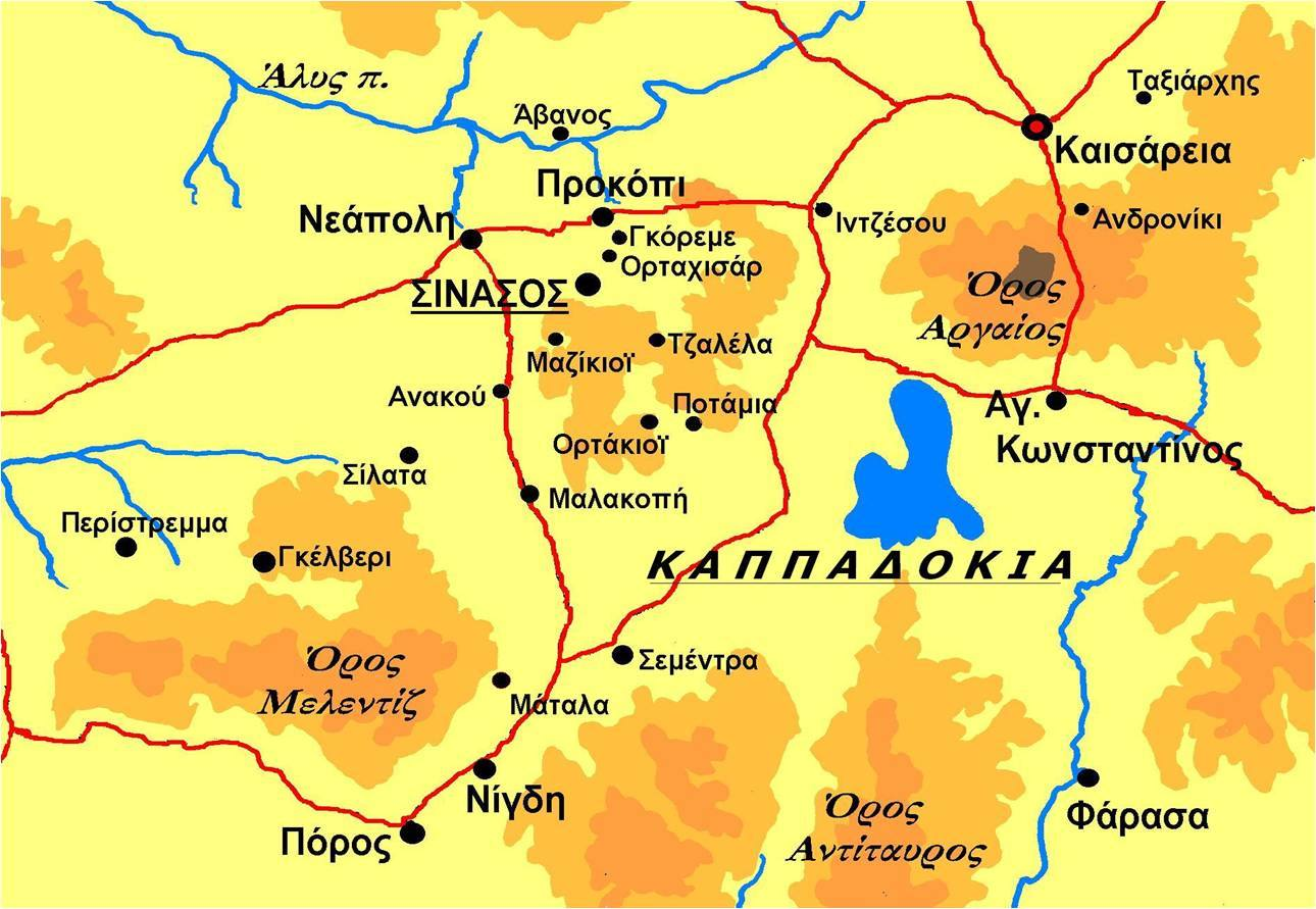 Sinasos at Kappadokia